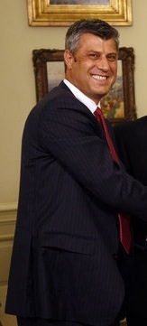 Photo of Kosovo PM Hashim Thaci meeting US President Bush; photo has been cropped just to show PM Thaci. The White House caption says: President George W. Bush shakes hands with Kosovo President Fatmir Sejdiu, center, and Kosovo Prime Minister Hashim Thaci, left, during a meeting Monday, July 21, 2008, in the Oval Office of the White House. White House photo by Eric Draper